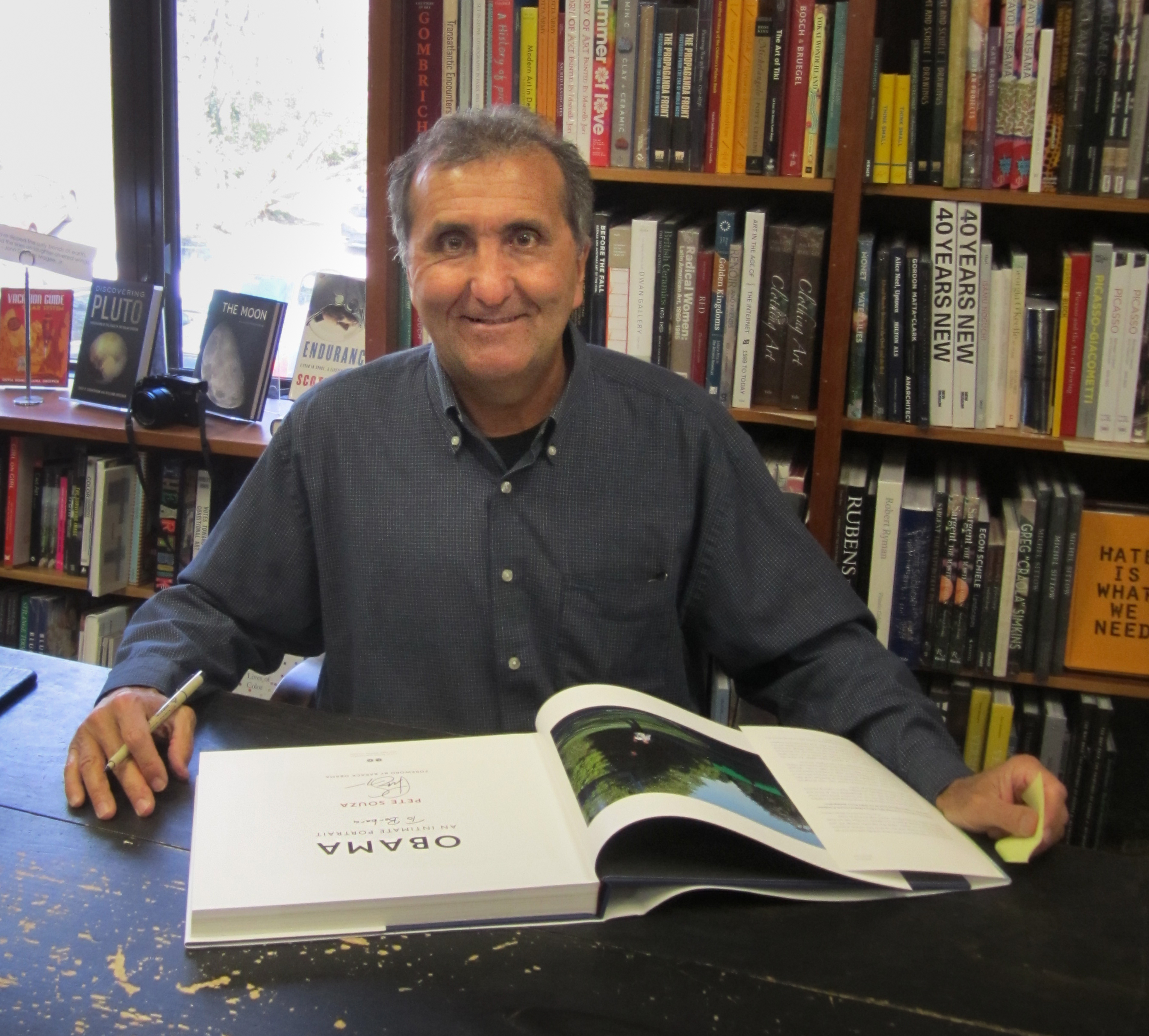 Pete Souza and Politics and Prose